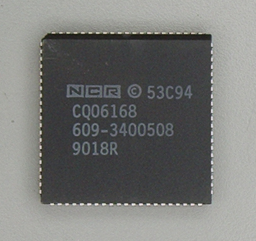 Photograph of an NCR 53C94 advanced SCSI controller in a PLCC-84 package.